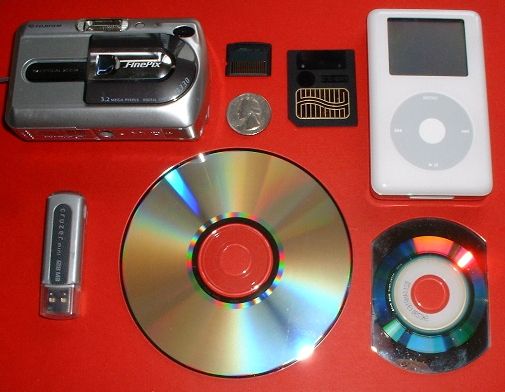 Personal Storage Devices (from English Wikipedia) Common personal storage devices that can be used to carry computer data. Digital camera Two flash memory cards used in digital cameras Quarter for size comparison iPod 5 gigabyte USB flash drive (128 MB) CD-R or DVD-R (diameter: 120 mm) Mini CD-R